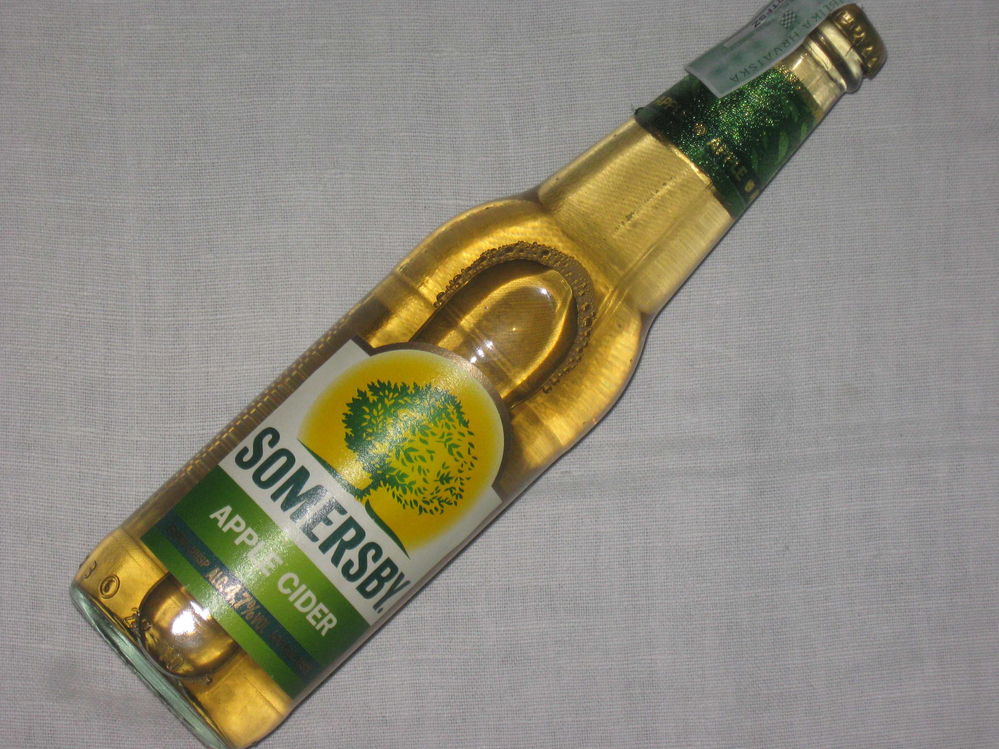 A botlle of cider.